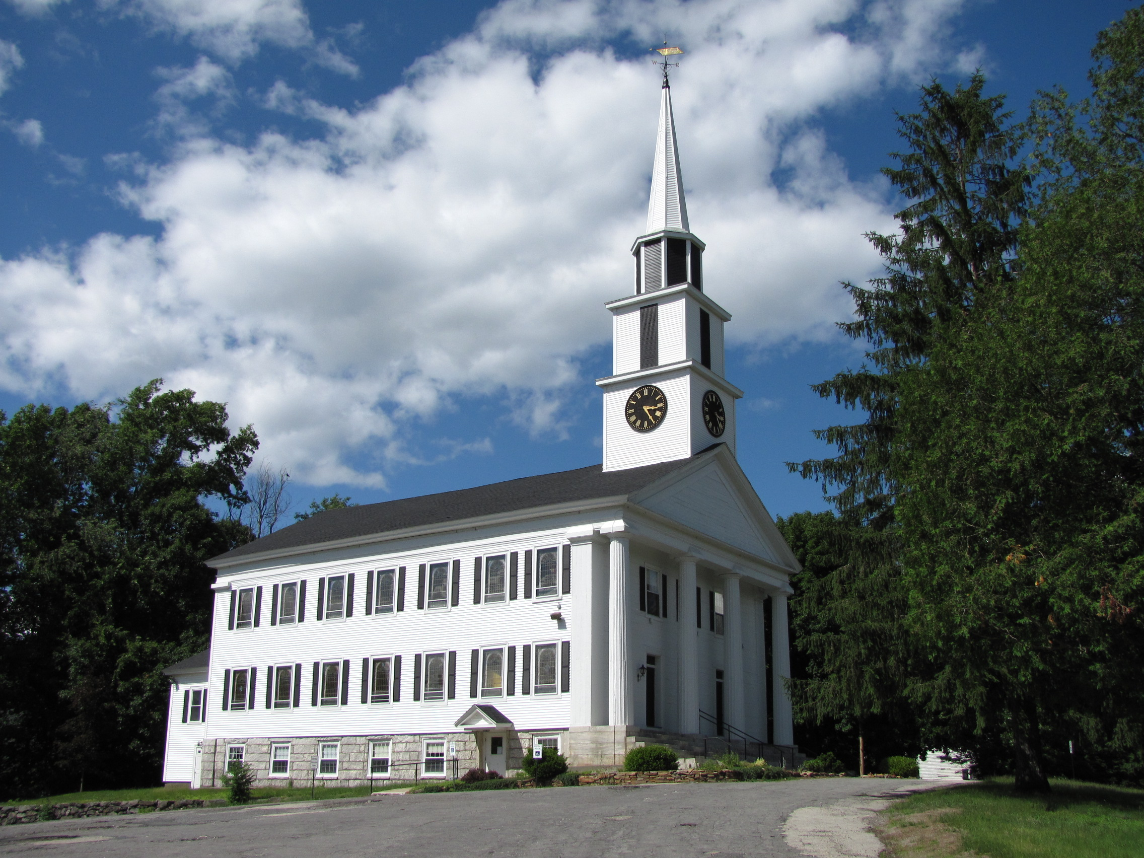 First Congregational Church, Millbury Massachusetts